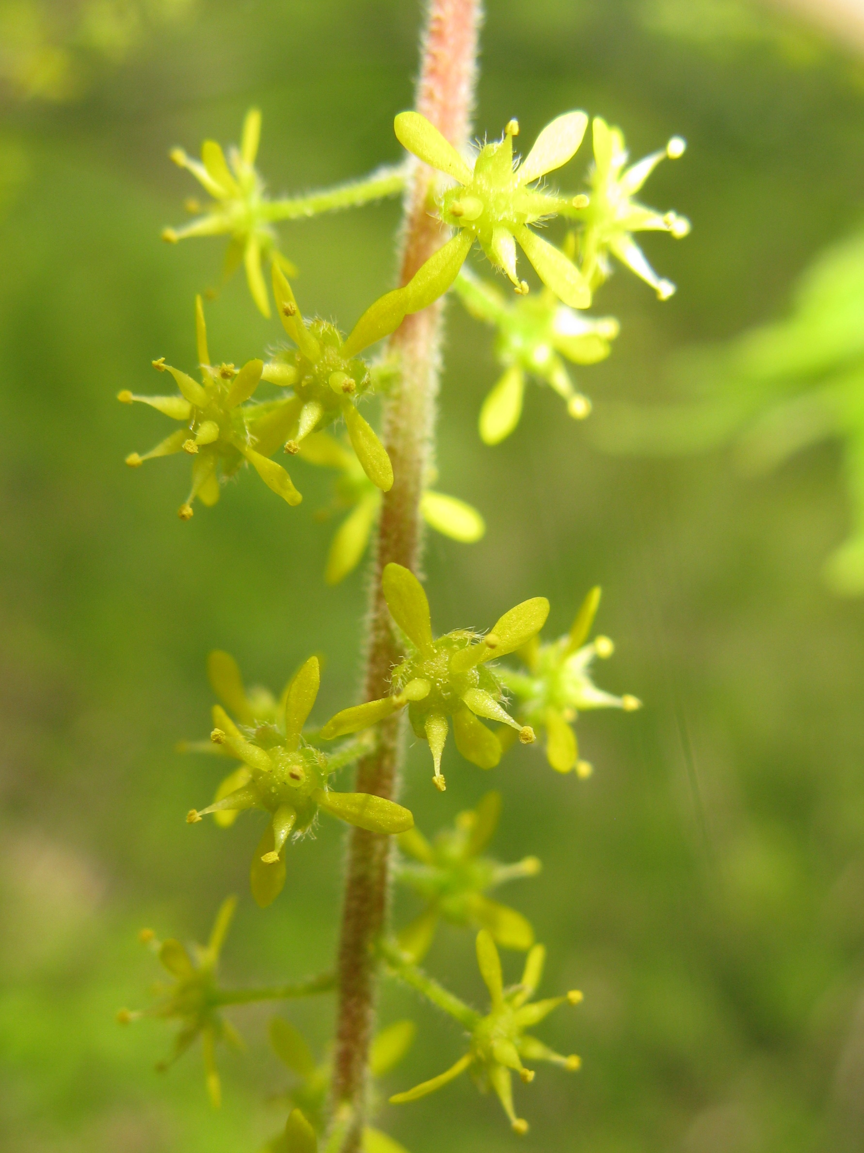 Acer cissifolium,Aizu area, Fukushima pref., Japan